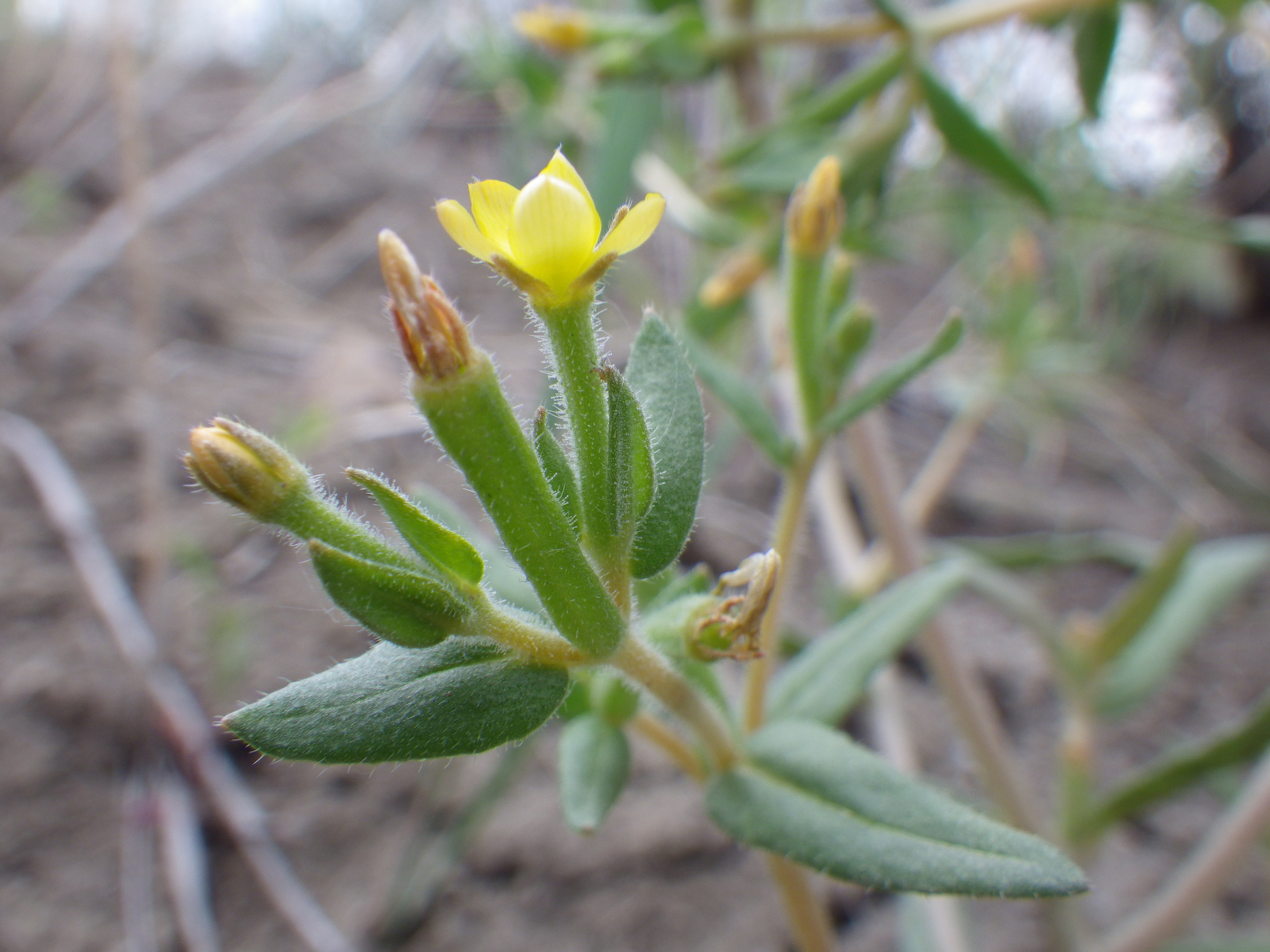 Mentzelia dispersa — Bushy blazingstar. The entire or very shallowly dentate bracts subtending the flowers (each with yellow petals and an inferior ovary) distinguish it from the other common annual, Mentzelia albicaulis.